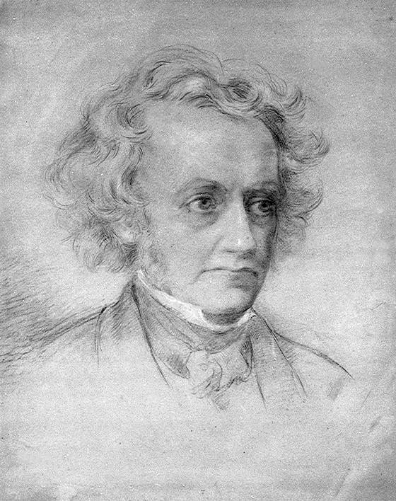 Sketch of Sir John Frederick William Herschel (1792-1871) done by his daughter Margaret Louisa Herschel. National Maritime Museum. Author died 1861.